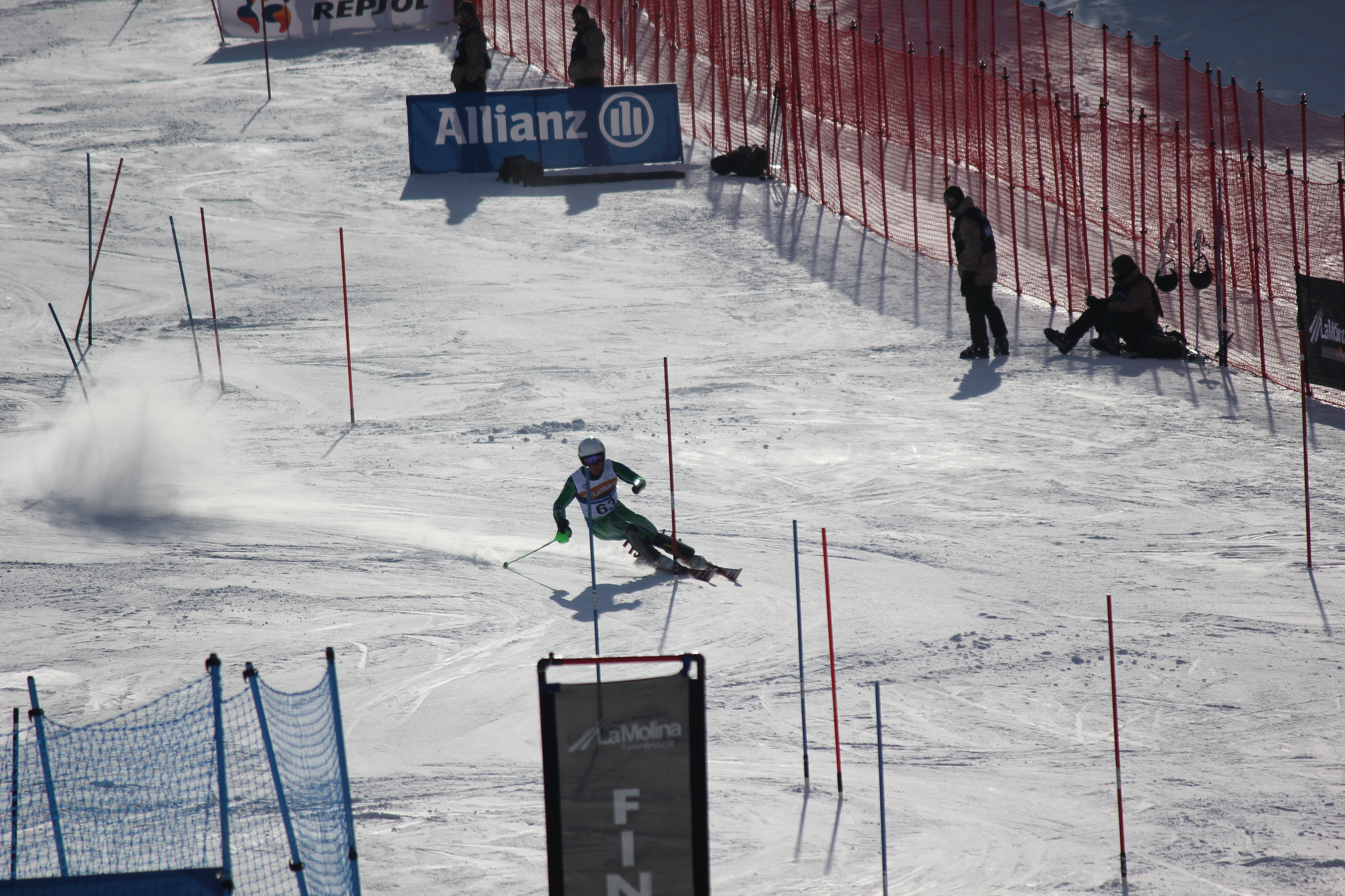 2013 IPC Alpine World Championships at La Molina in Spain. Day 3 of competition. Slalom final. Mitchell Gourley of Australia